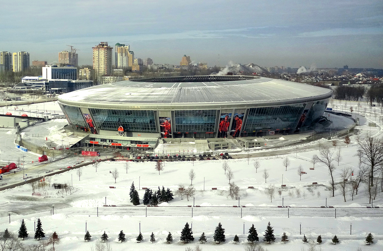 Donbass Arena in Donetsk, Ukraine